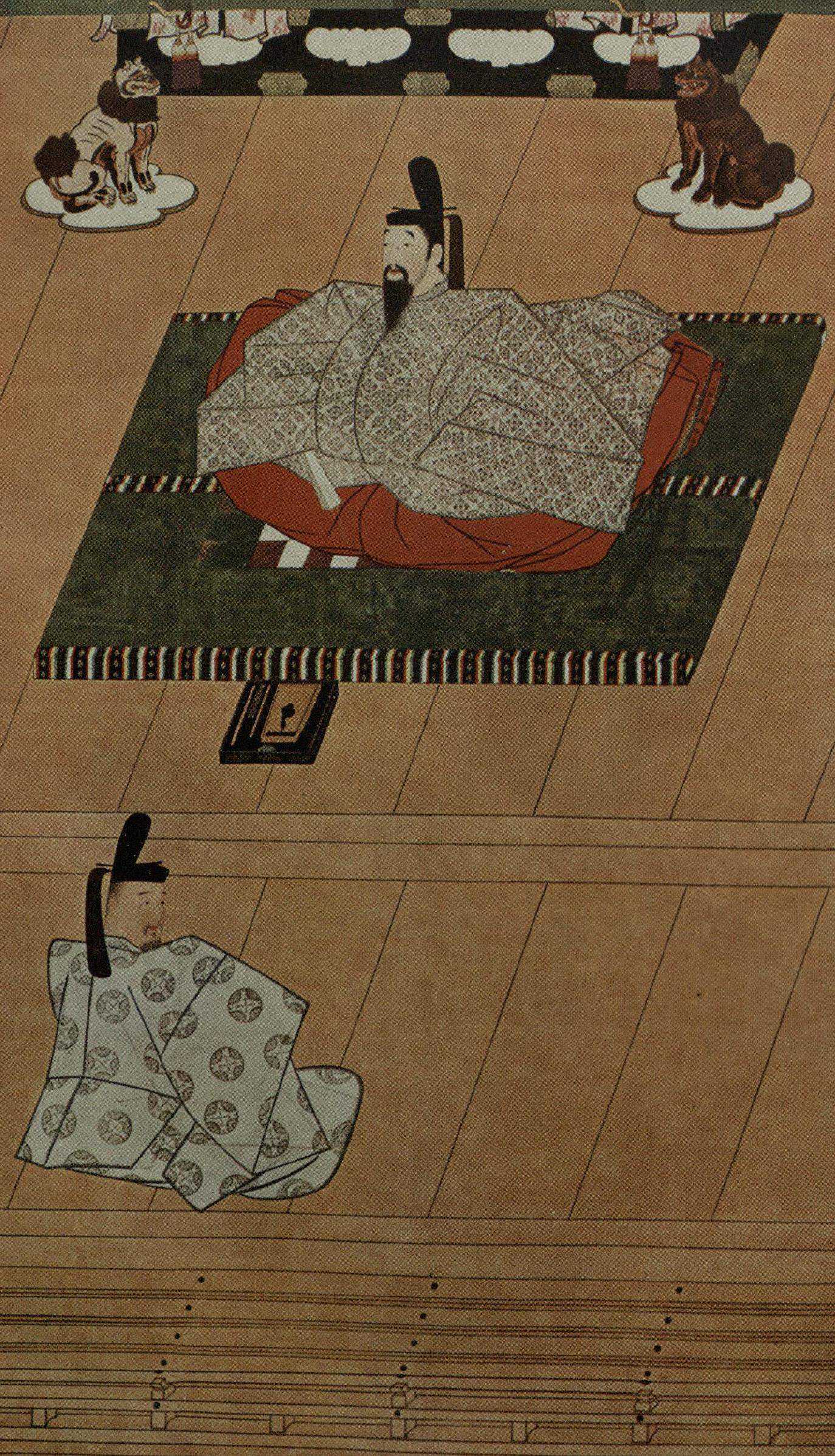 14th century Hanging scroll (kakemono) image of the Japanese tennō Go-Daigō, originally located at Yoshino, later kept in the Daitoku-ji of Kyoto.